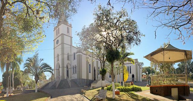 Church of Santa Luzia (Duartina)